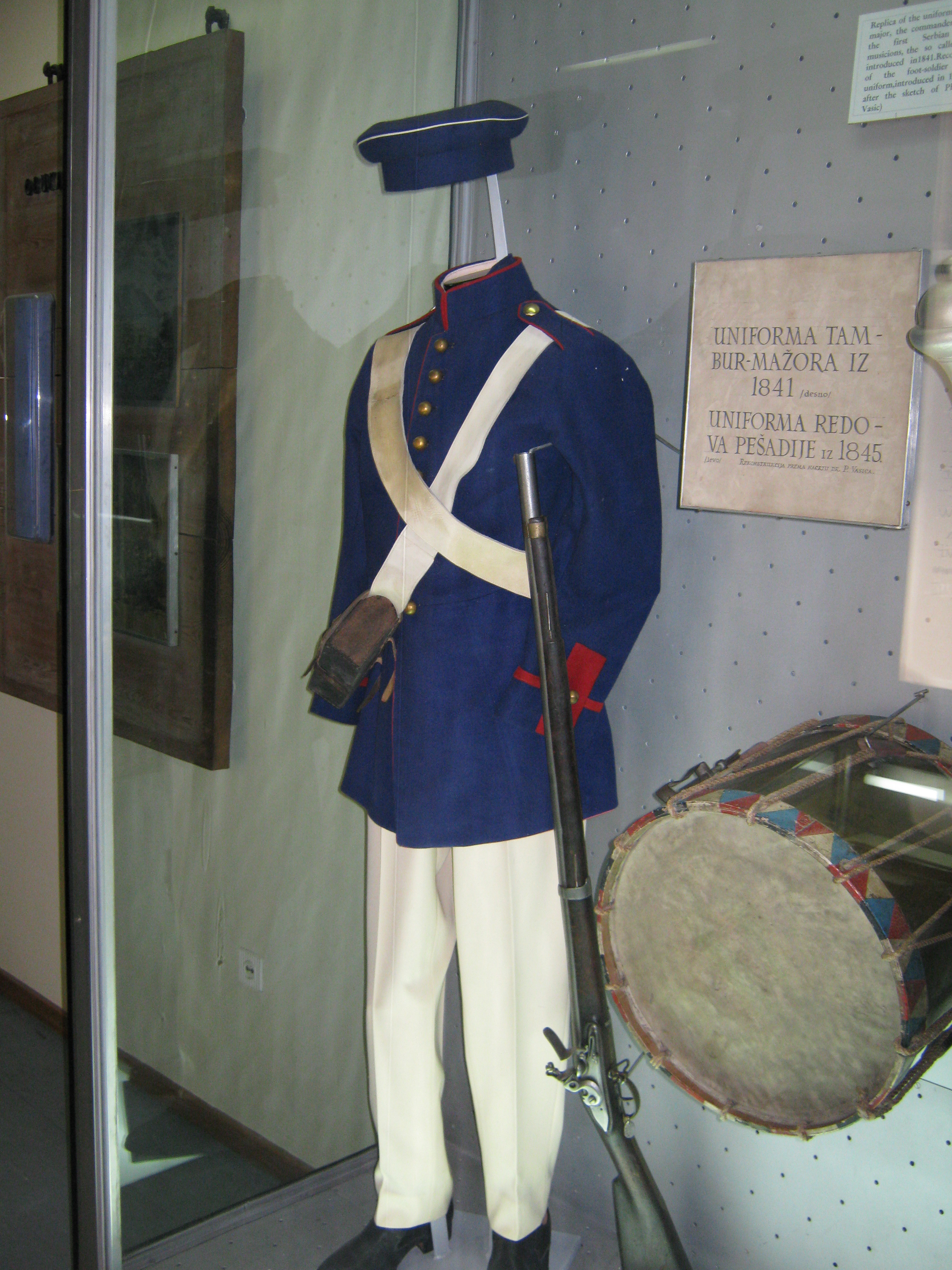 Uniform and weapon of Serbian private from 1845. Photo taken in:Military museum Belgrade